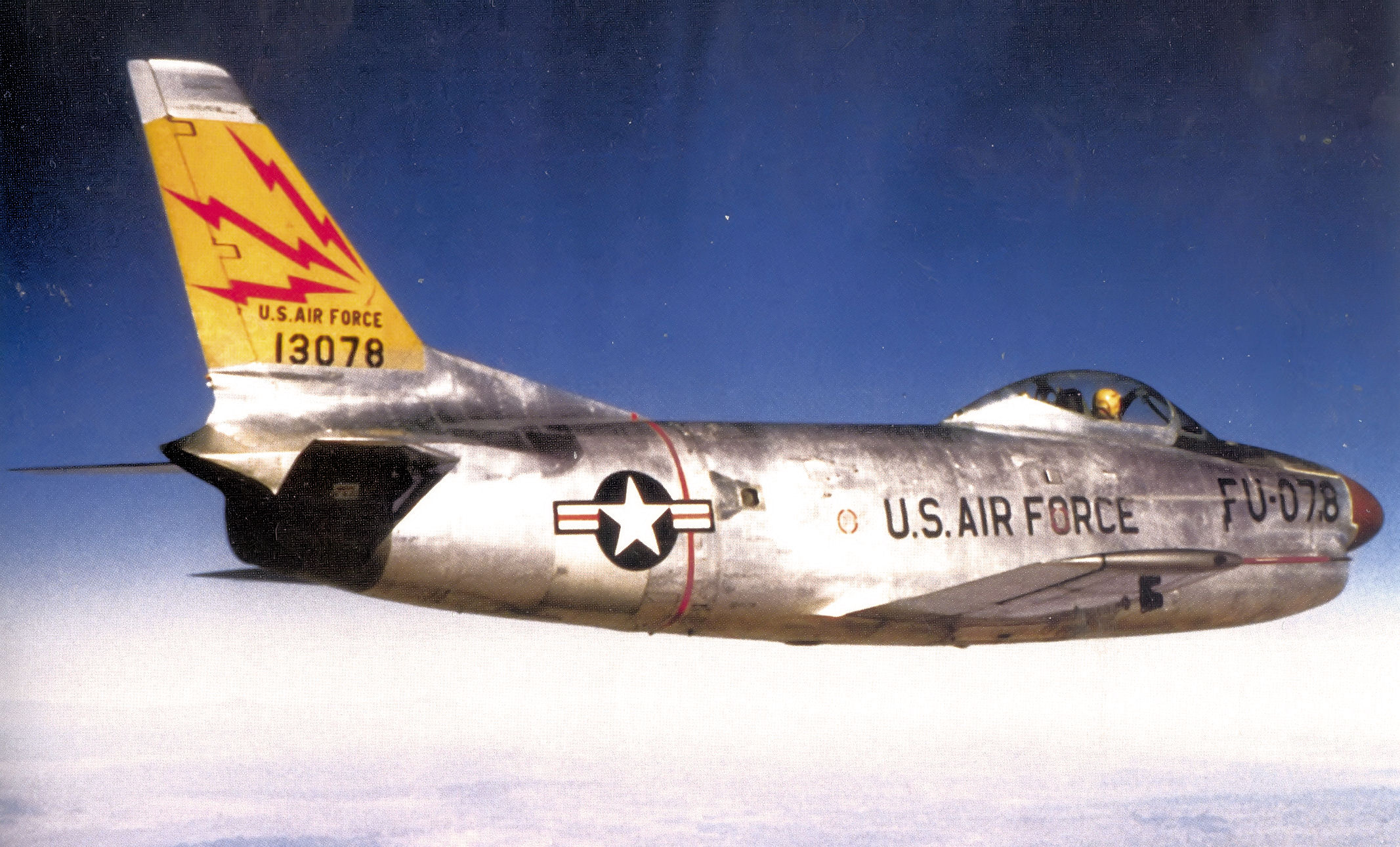 465th Fighter-Interceptor Squadron North American F-86D-20-NA Sabre 51-3078, Griffiss AFB, New York, 1959